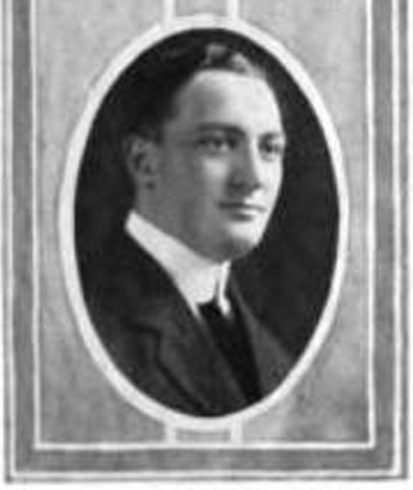 Photograph of Meyer Morton